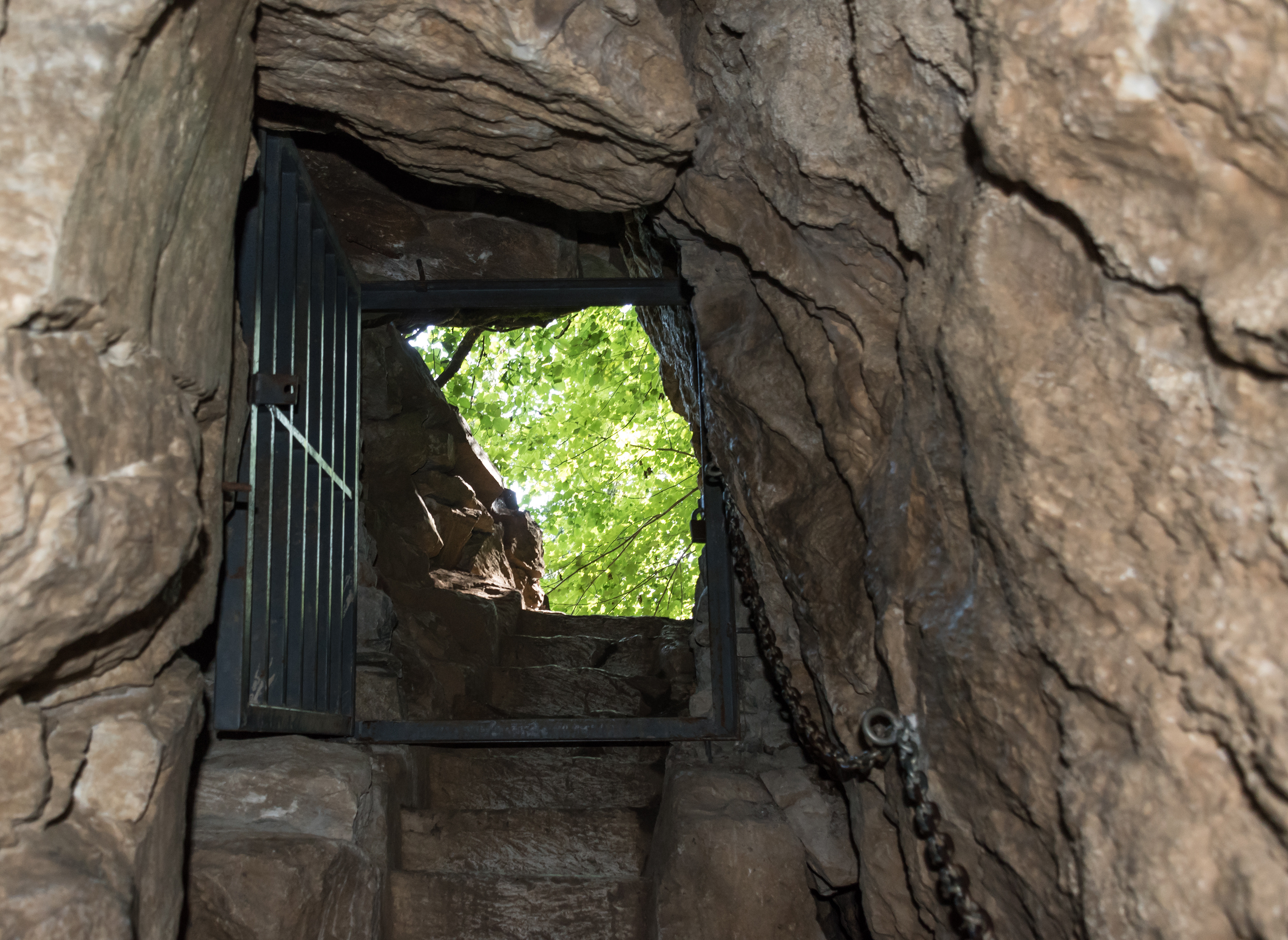 Cave in Radochów